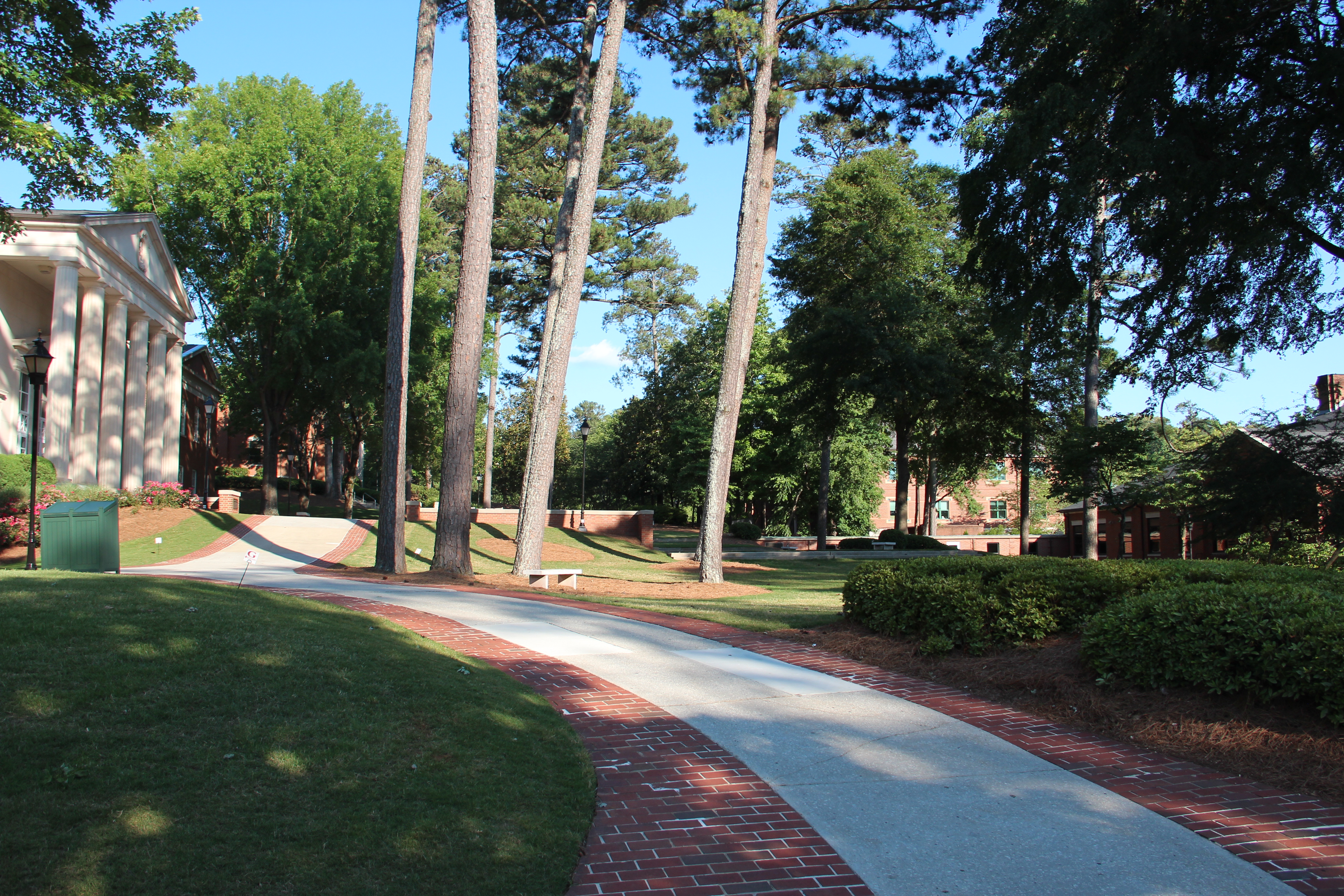 The Westminster Schools campus, Atlanta, Georgia